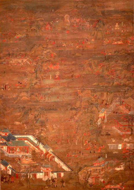 Shaka's Eight-Phase Nirvana, Daifukudenji, Kuwana, Mie, Japan